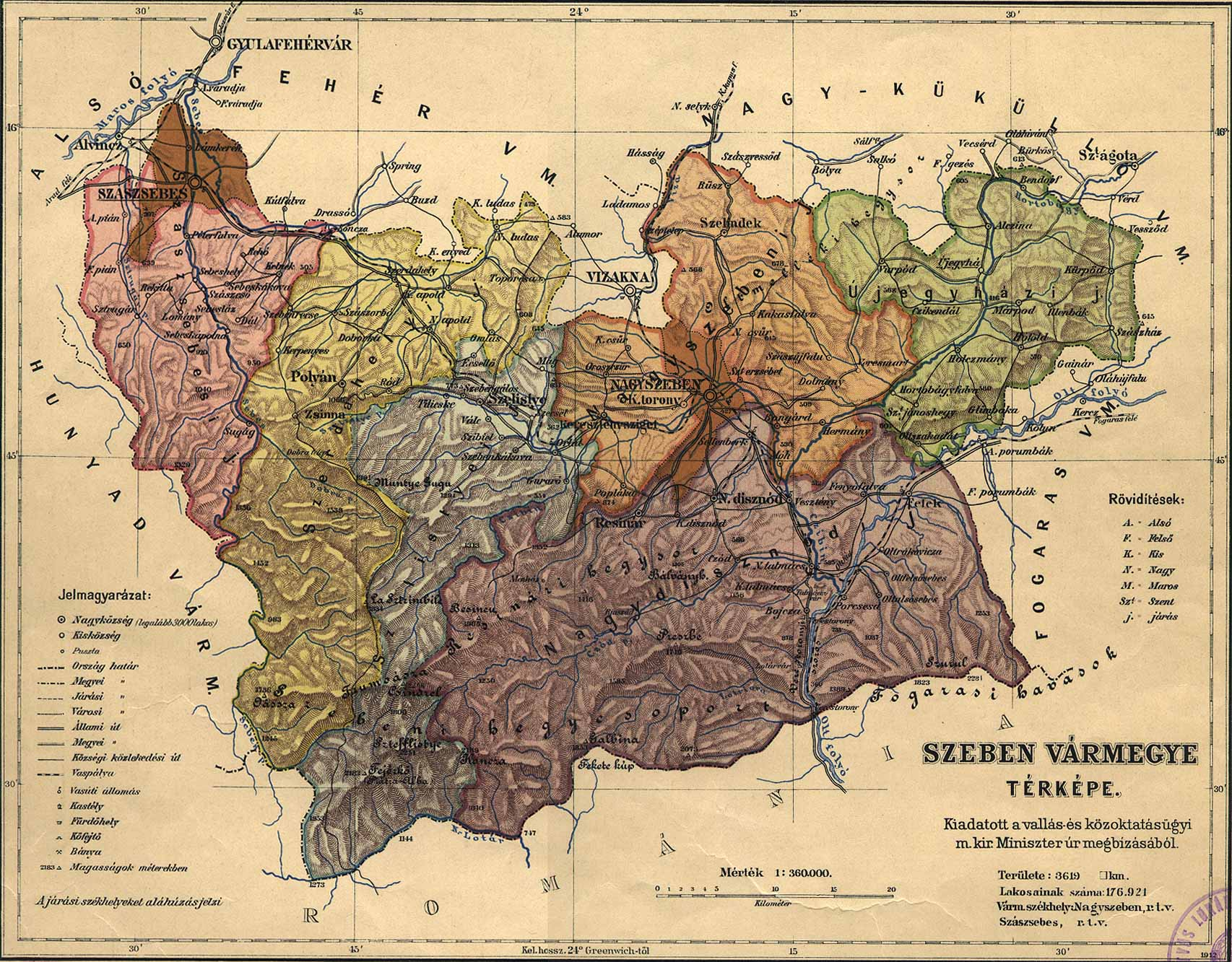 Administrative map of the county of Szeben in the Kingdom of Hungary